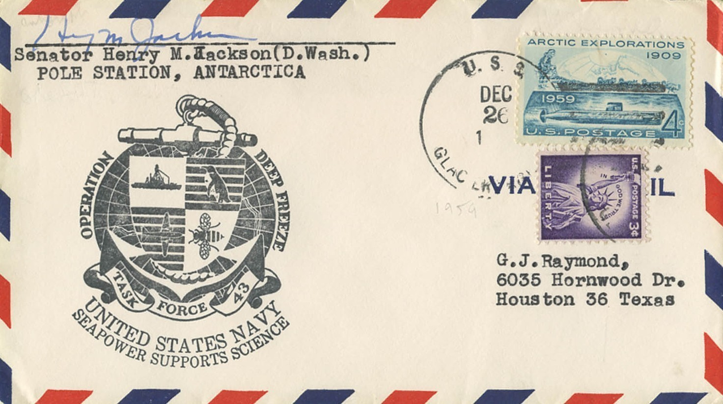 U.S.A. 1959 USS Glacier Operation Deepfreeze, Senator Henry M. Jackson signed Antarctic Cover